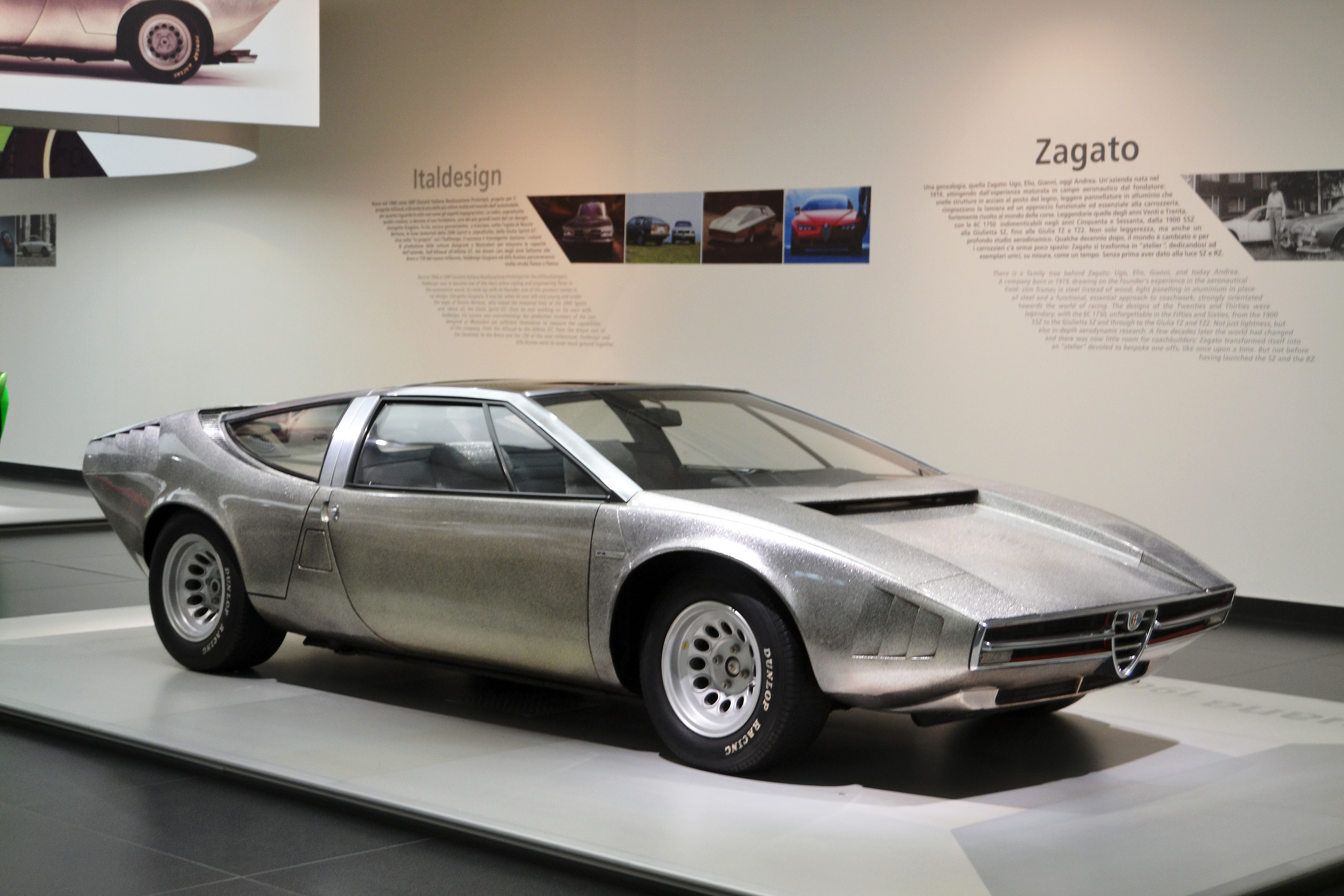 Alfa Romeo Tipo 33 Iguana (Ital Design); Museo Storico Alfa Romeo, Arese, Milano, Italy